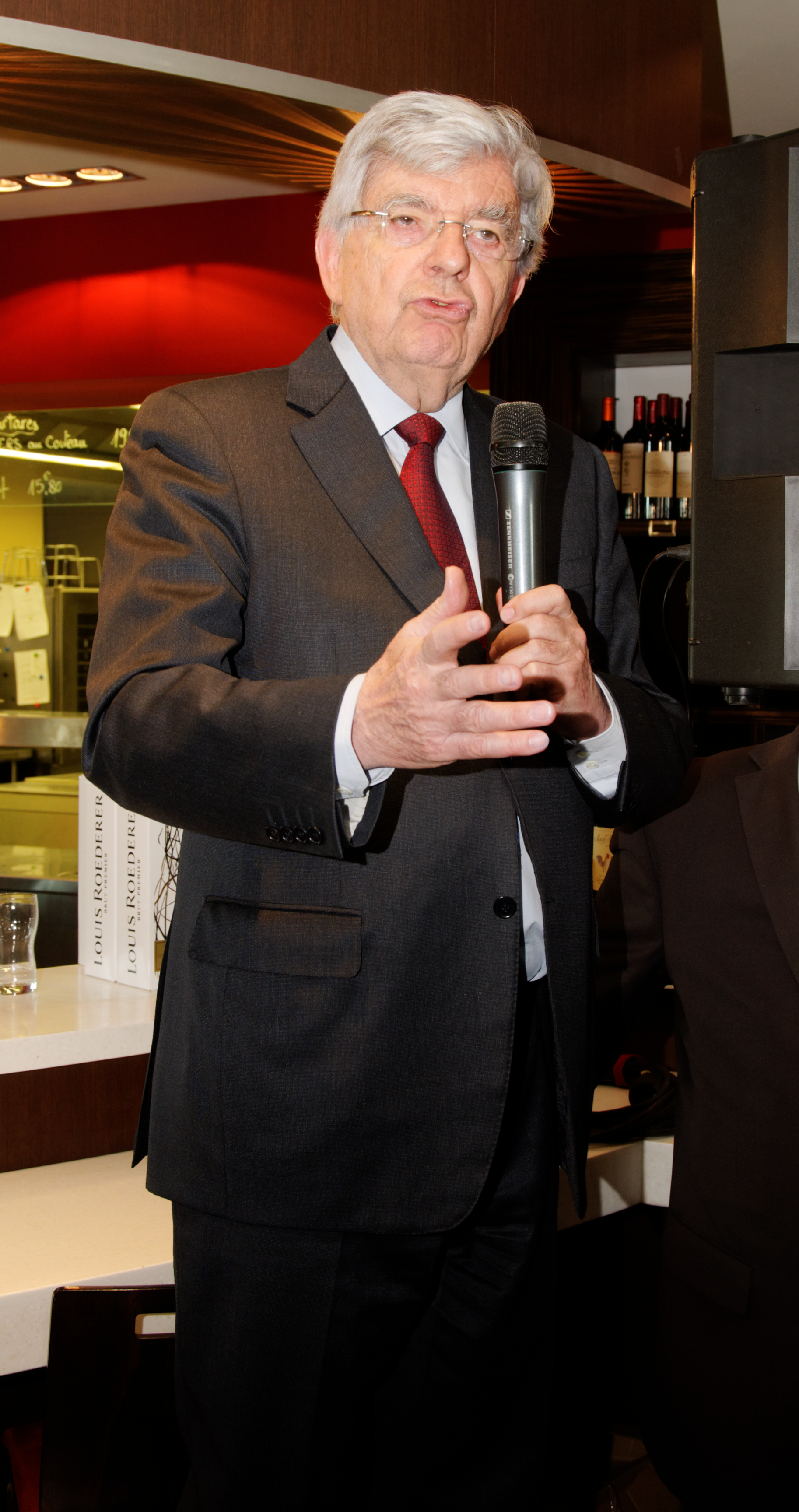 Personality rights warningAlthough this work is freely licensed or in the public domain, the person(s) shown may have rights that legally restrict certain re-uses unless those depicted consent to such uses. In these cases, a model release or other evidence of consent could protect you from infringement claims.